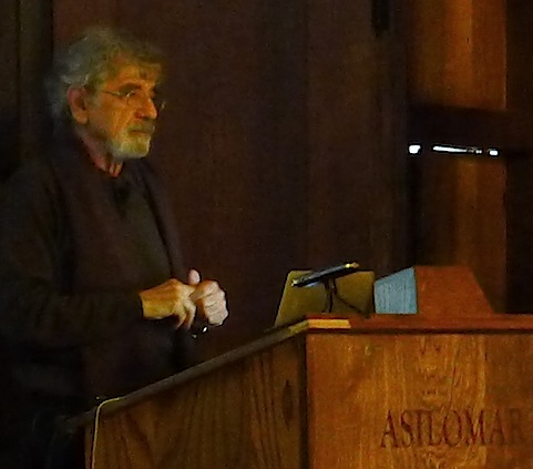 Humberto Maturana at 2012 last American American Society for Cybernetics conference in Asilomar California